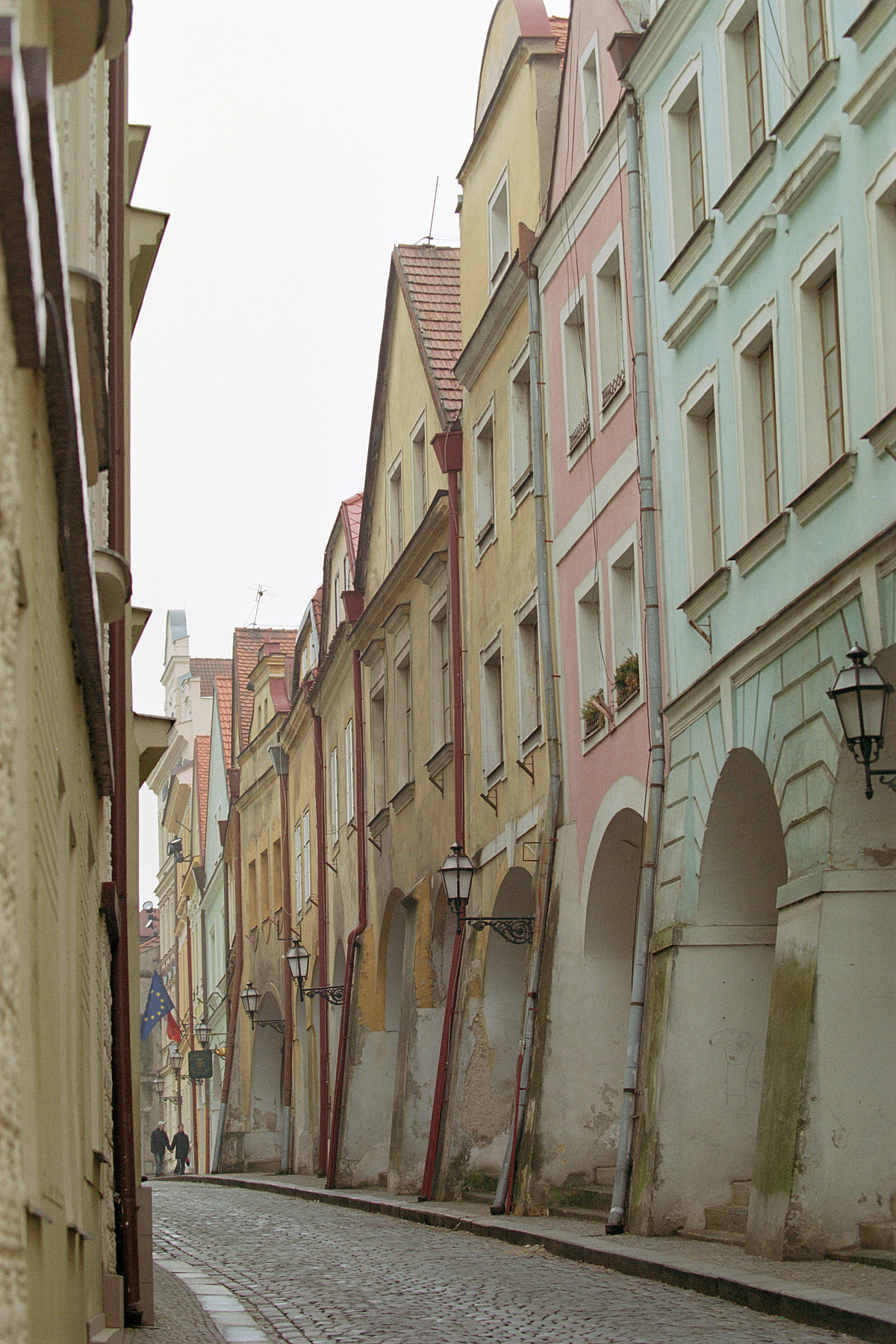 own picture, taken in early 2005 Hradec Králové near the market place